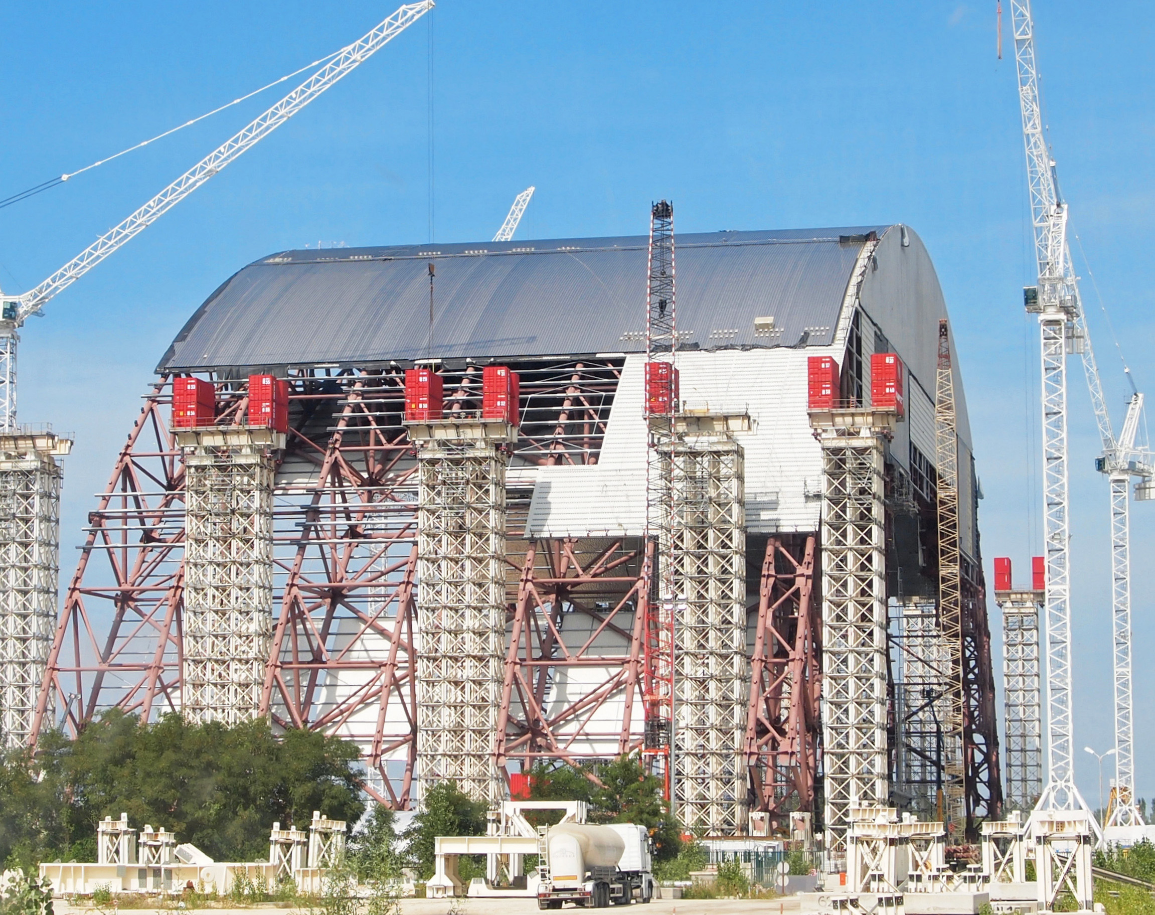 Sarcophagus under construction in Chernobyl Exclusion Zone, Ukraine. View from south.